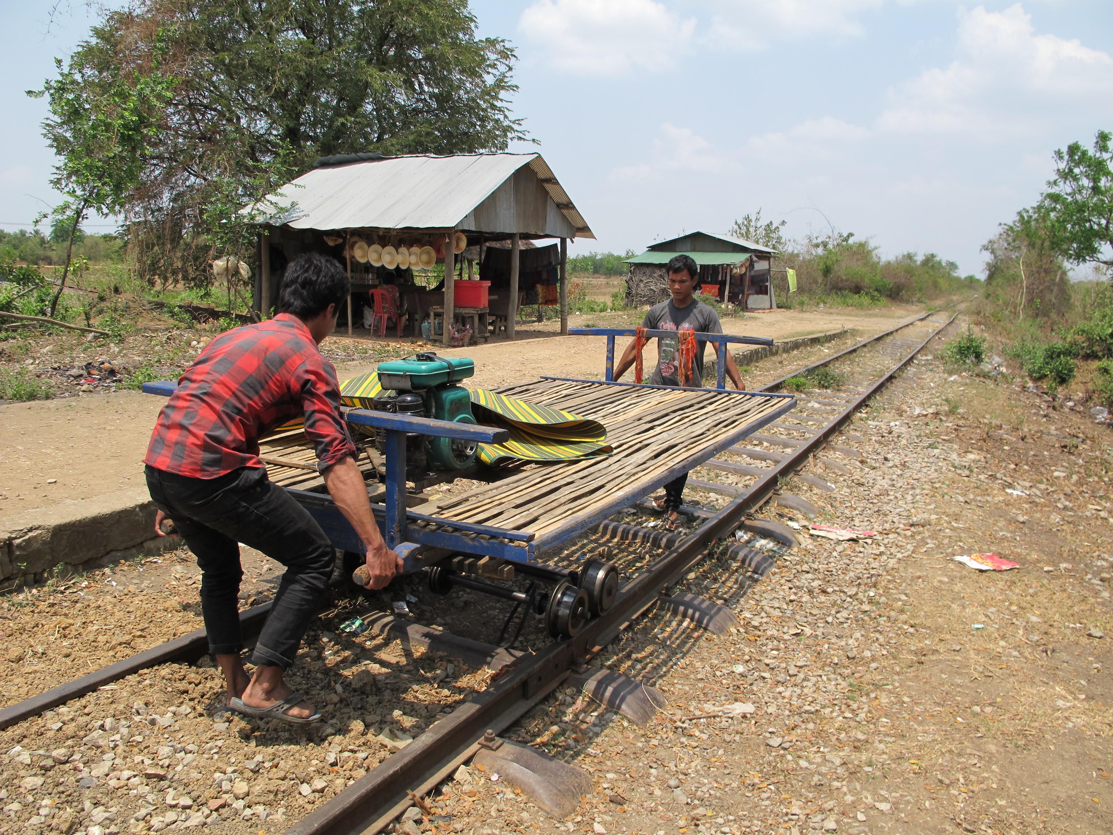 Bamboo train near Battambang, Cambodia